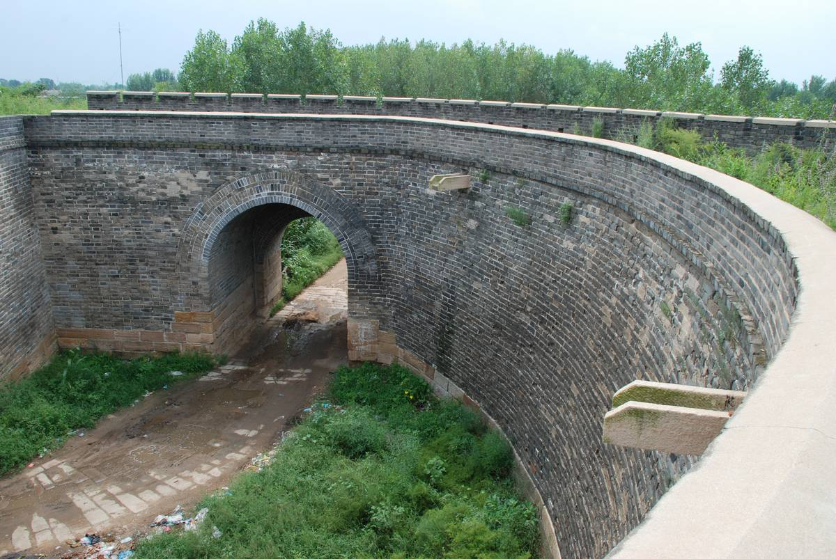 Qiansuo City Wall